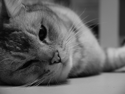 Burmilla cat- again...